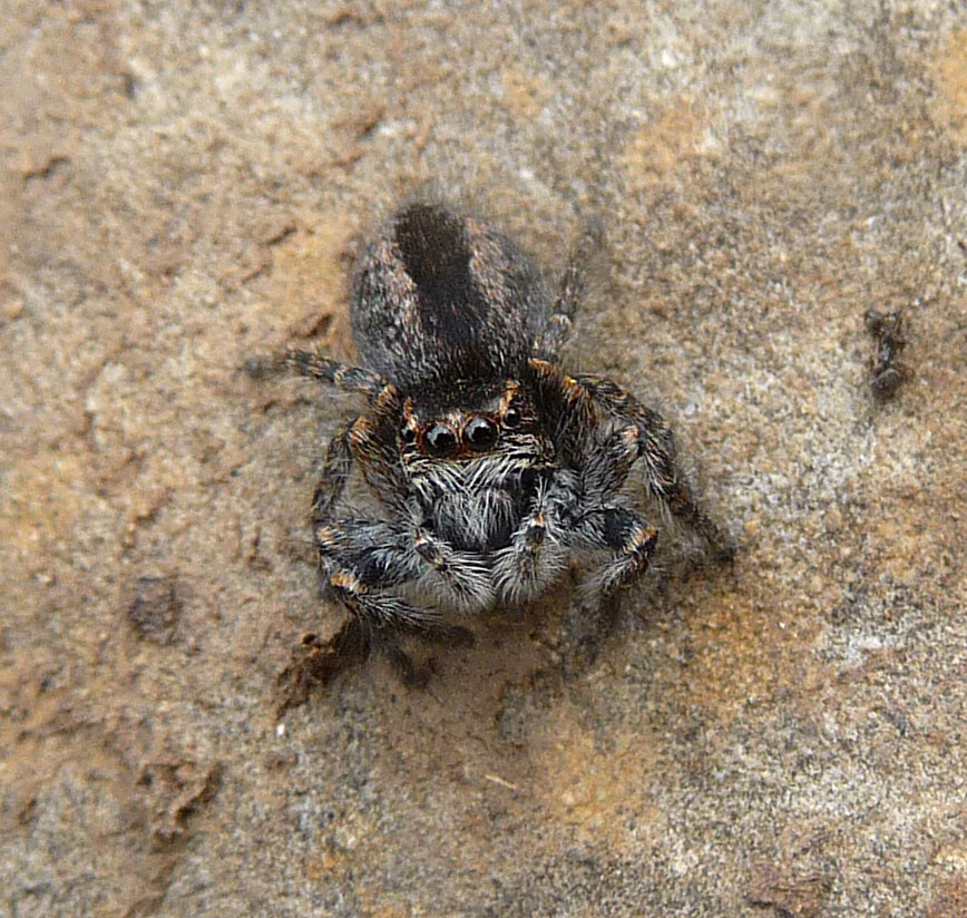 Salticidae . Jumping Spider (Philaeus chrysops). Female